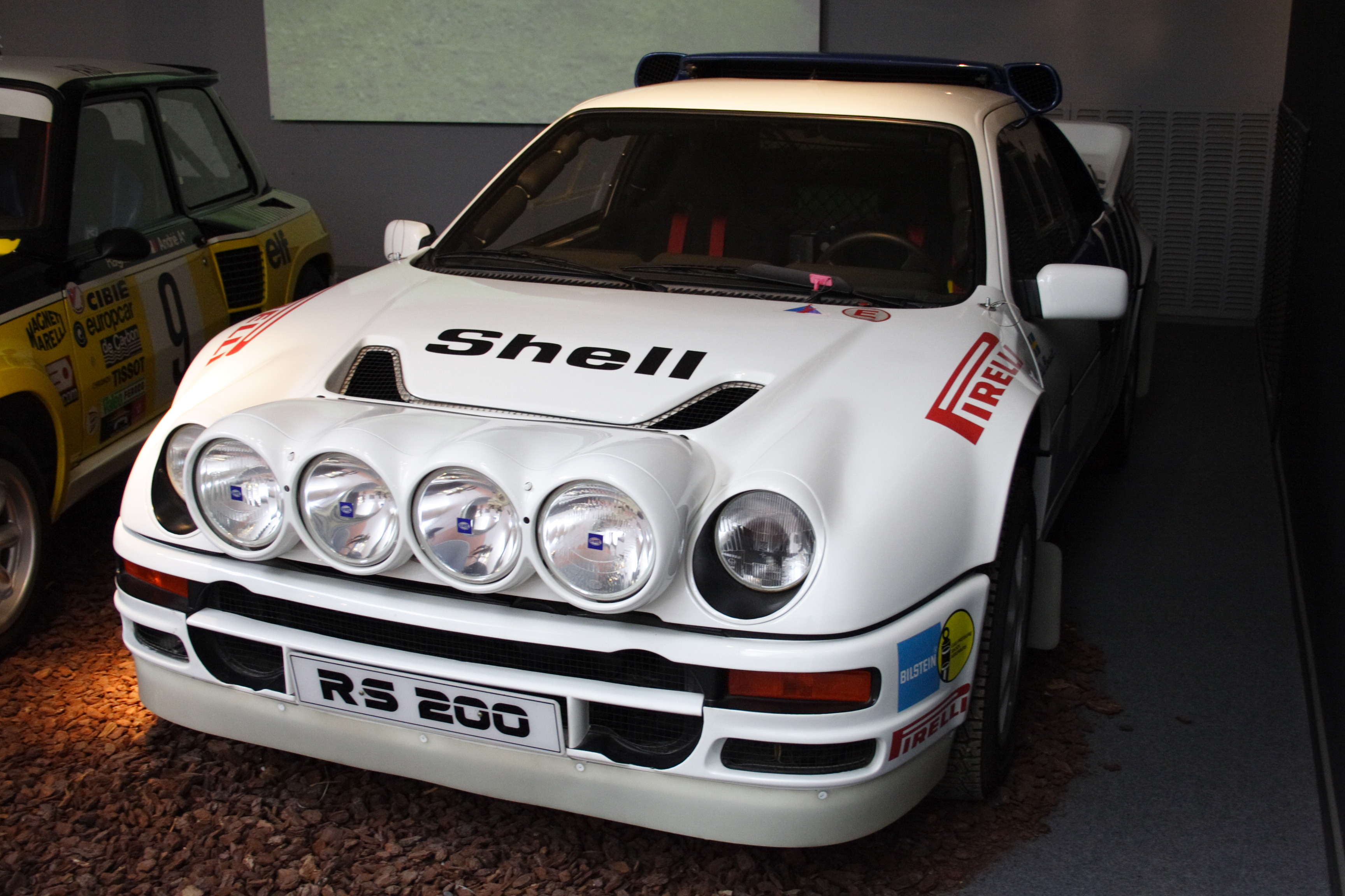 Ford RS200 1986 at the Musée National de l'Automobil(Mulhouse, France)